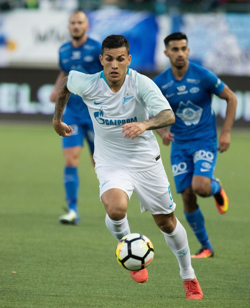 30.08.2018. Норвегия, Мольде, «Мольде». Лига Европы УЕФА 2018/19, раунд плей-офф, «Мольде» — «Зенит».